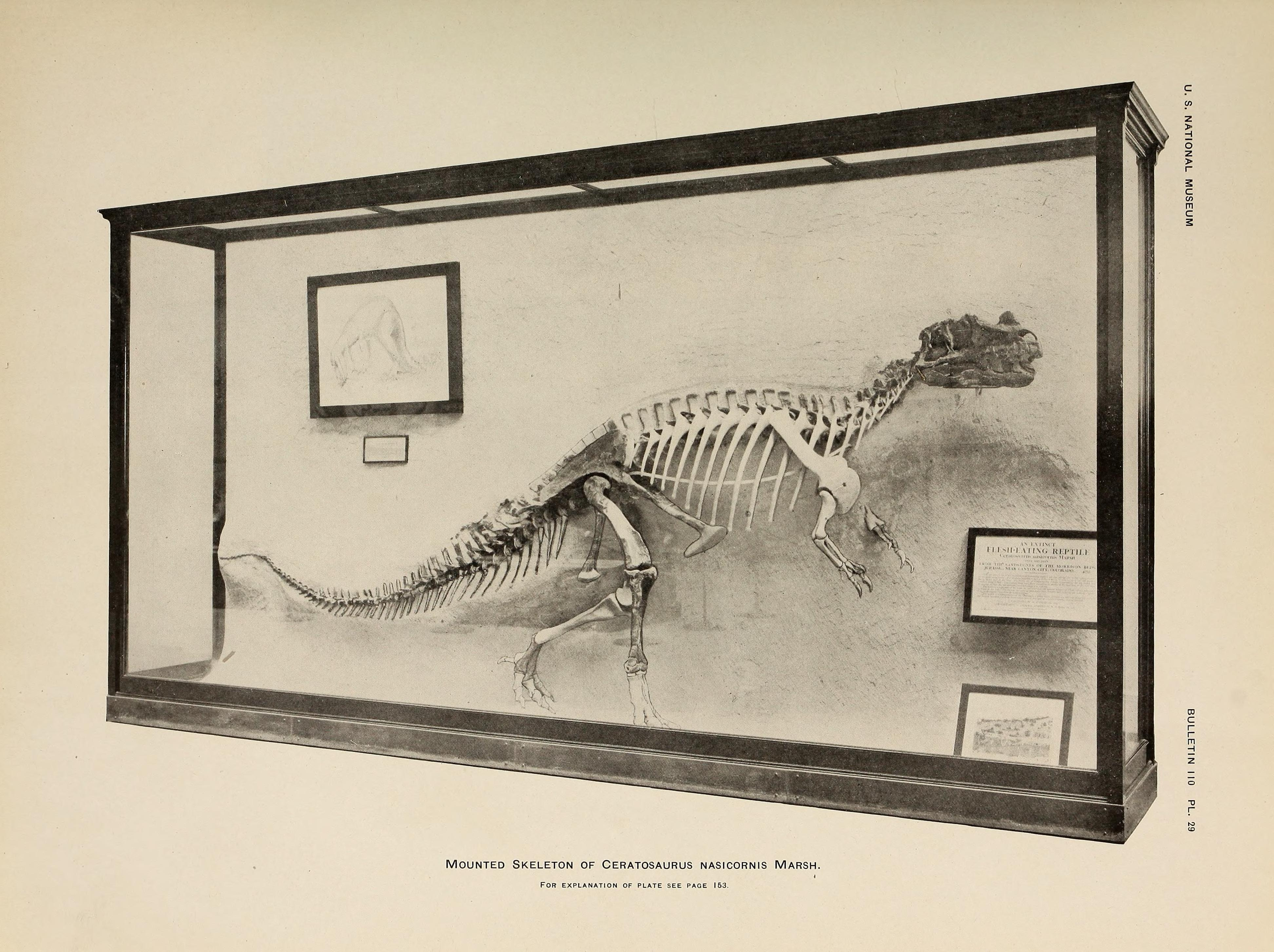 Osteology of the carnivorous Dinosauria in the United States National museum : with special reference to the genera Antrodemus (Allosaurus) and Ceratosaurus /